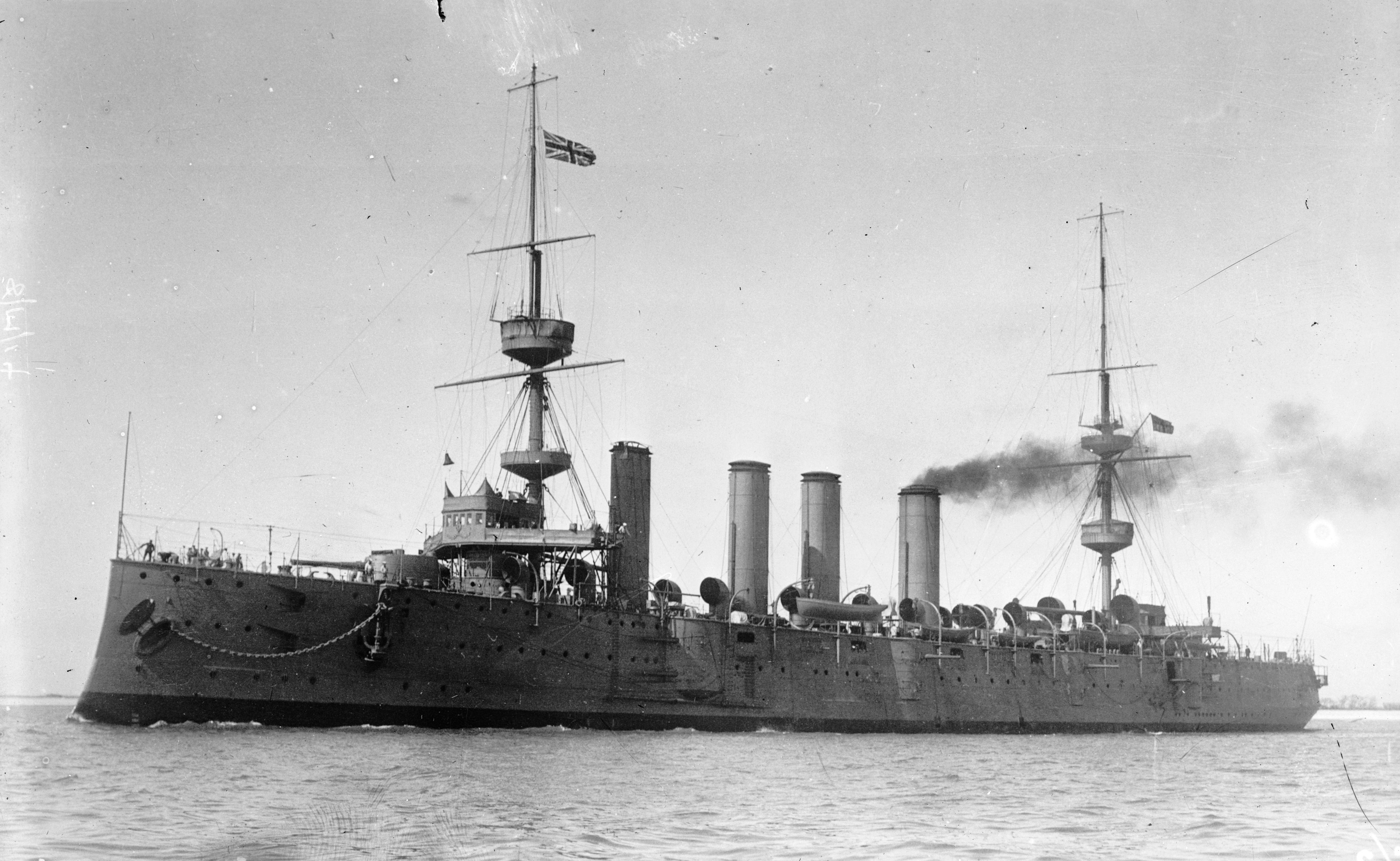 LC-DIG-GGBAIN-16826: Royal Navy Powerful-class protected cruiser HMS Terrible. Besides serving as a troopship in World War I, she served in the Siege of Ladysmith in the Second Boer War and served in the Boxer Rebellion. After World War I, Terrible became a training school and was sold in August 1932. George B. Bain News Service, photographed between 1910-15. (9/25/2015).